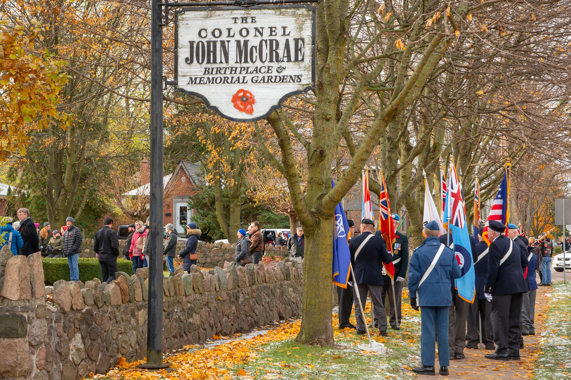 The birthplace of John McCrae (1872-1918) author of In Flanders Fields